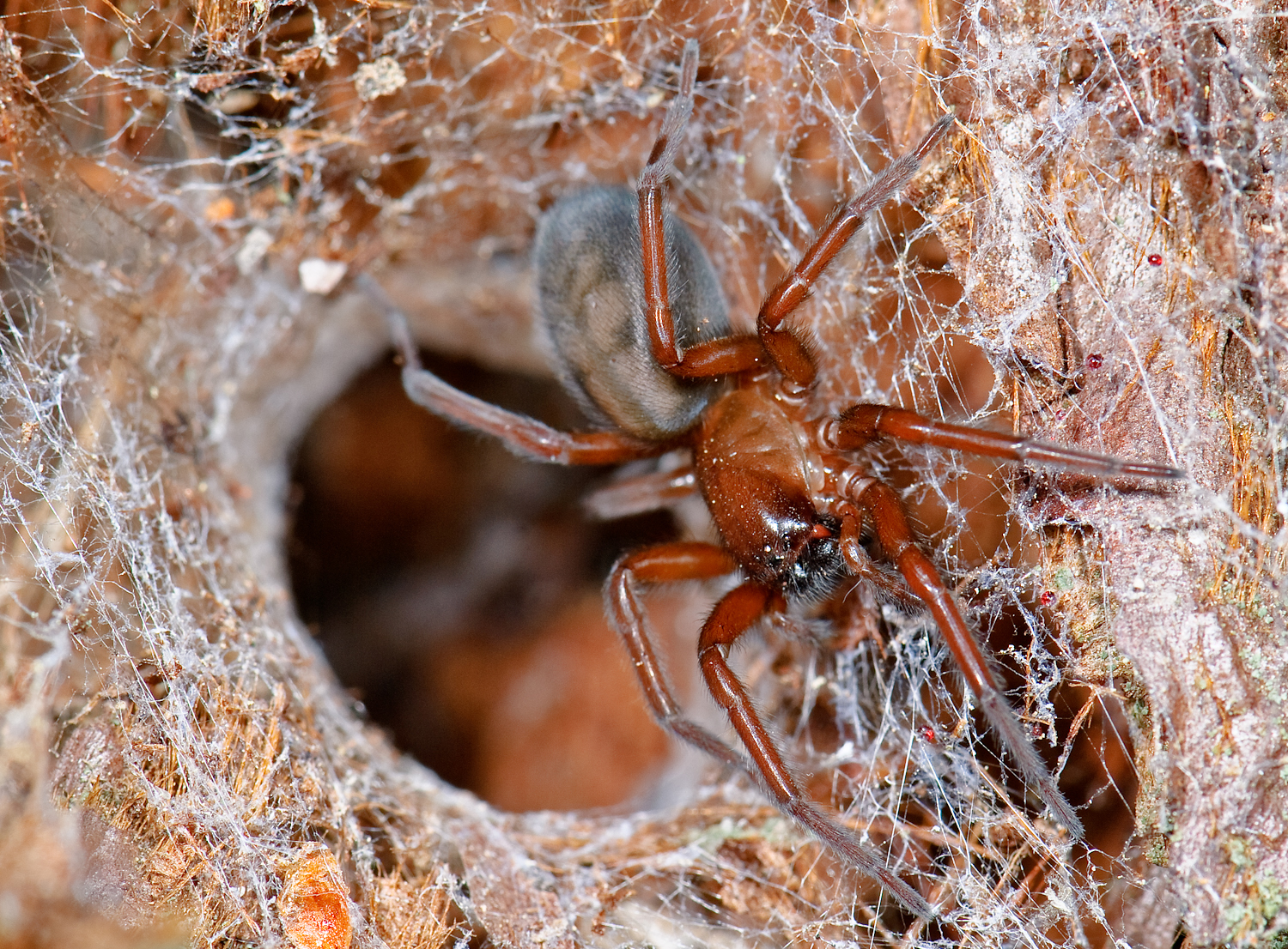 Adult female nocturnally active at web entrance. Cribellum visible on fourth metatarsus.